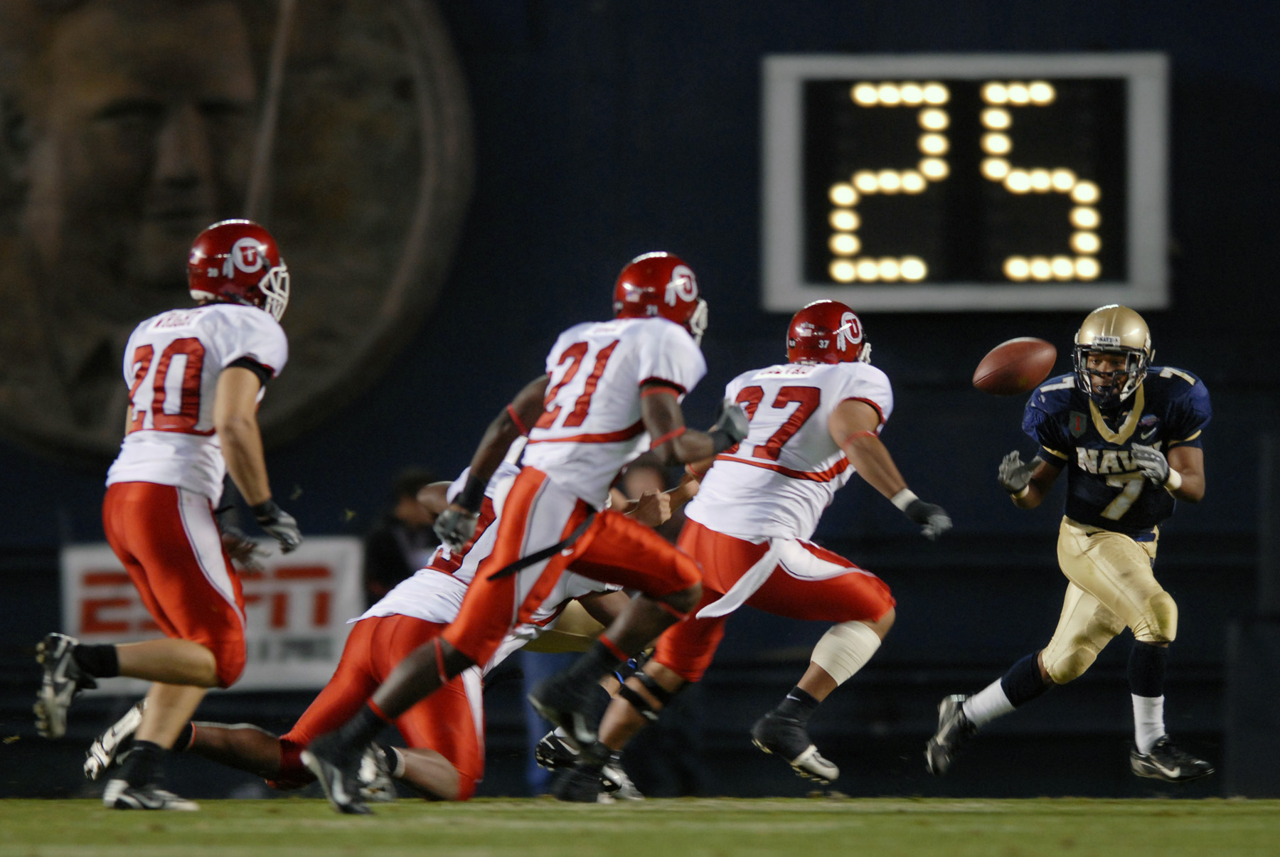 Navy running back, Reggie Campbell (7), a senior from Sanford, Fla., prepares to catch a pitch from quarterback Kaipo-Noa Keheaku-Enhada (10). The Midshipmen of the Naval Academy met the University of Utah Utes in the third-annual Poinsettia Bowl, ending with a 35-32 Utah victory.